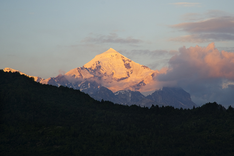 view from Mestia